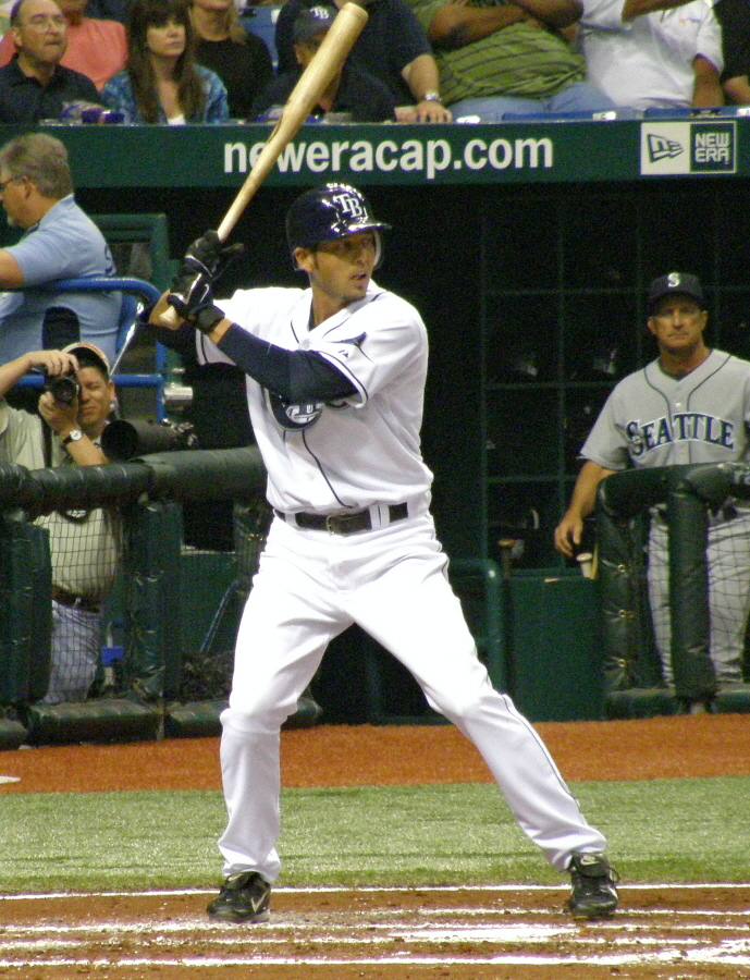 Jason Bartlett